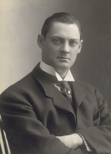 A younger Lionel Barrymore.